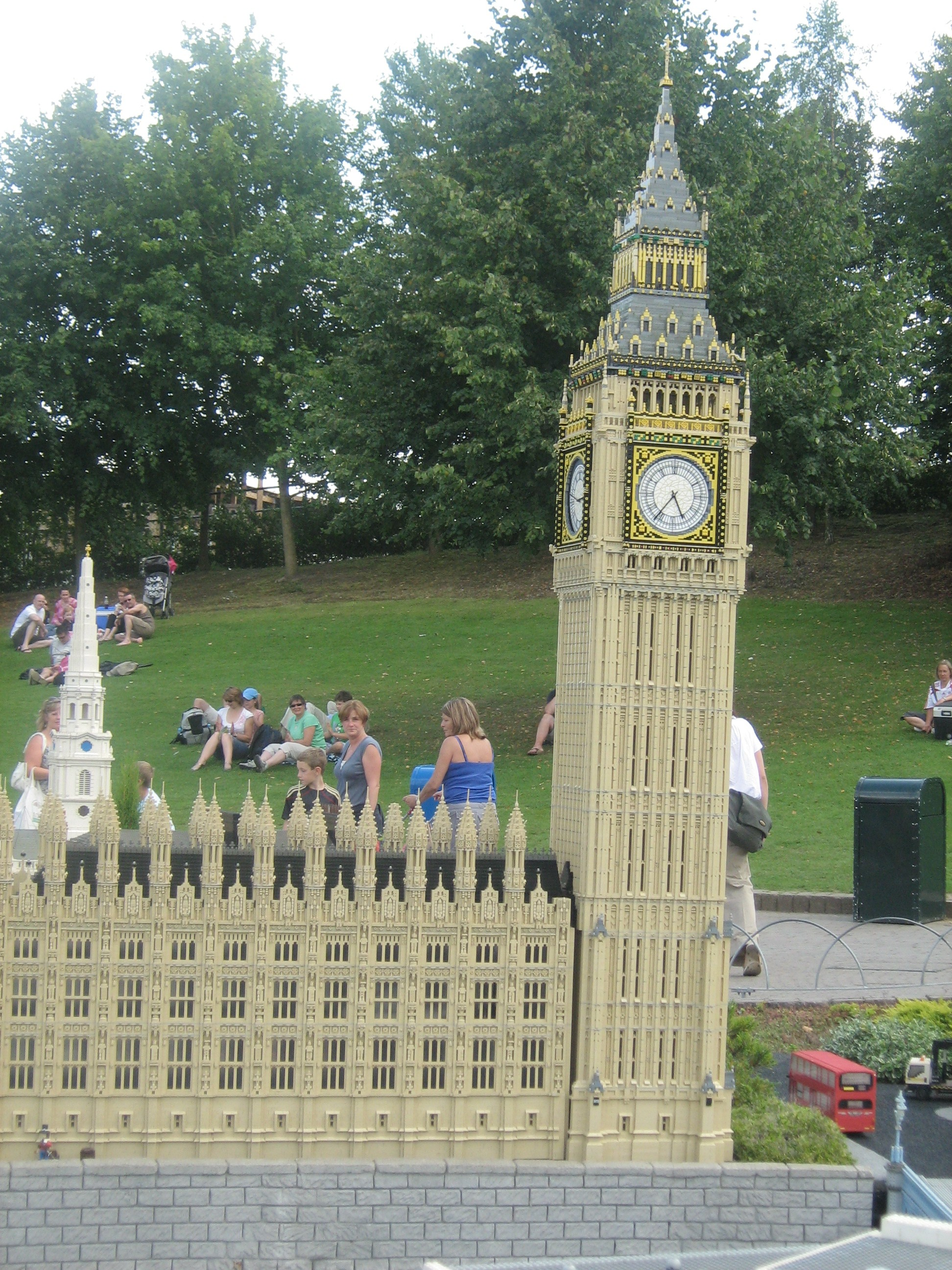 Model of Big Ben and Houses of Parliament in Miniland, Legoland Windsor